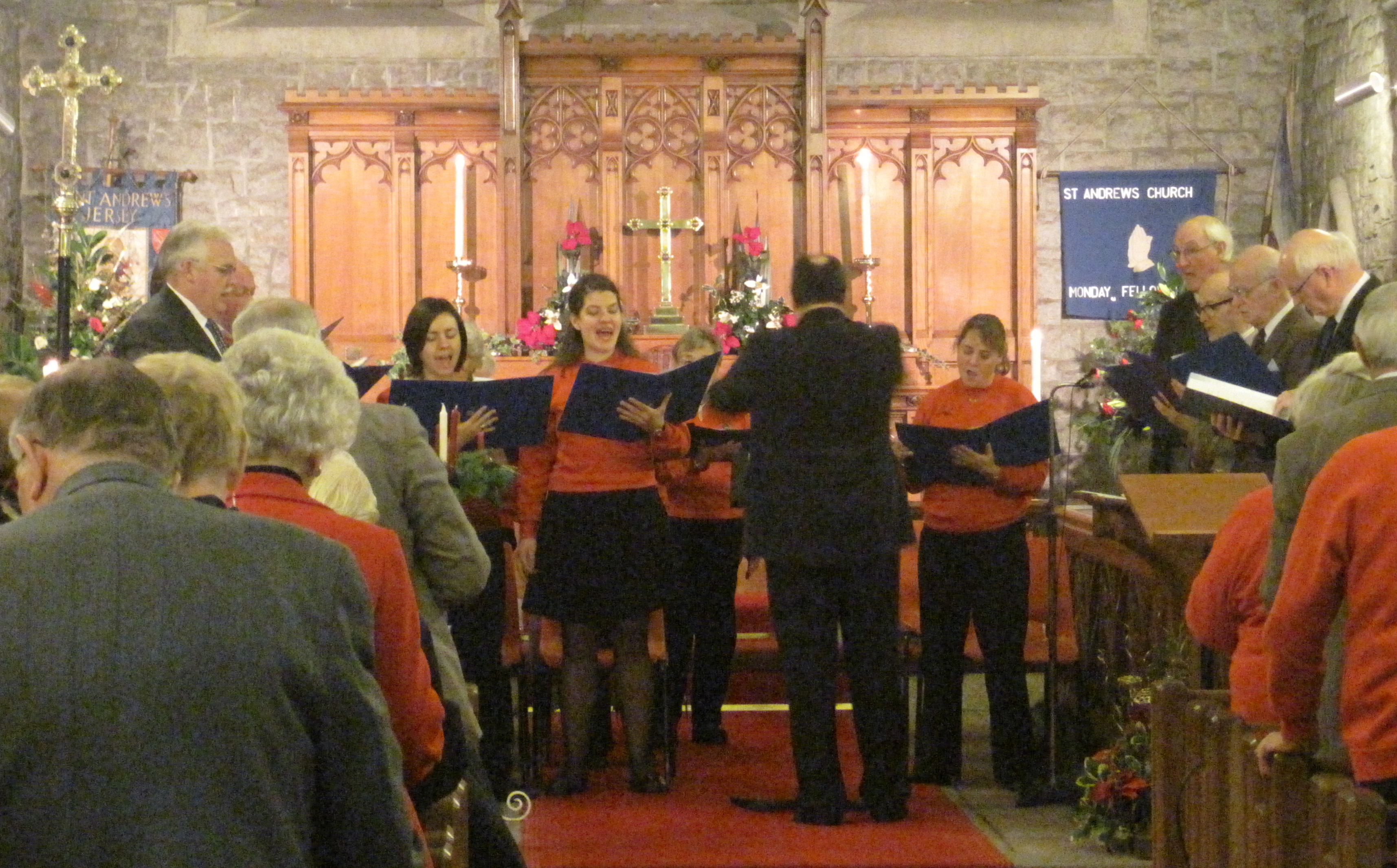 Service of Nine Lessons and Carols in Jèrriais, Saint Andrew's Church, Saint Helier, Jersey Nrf: Sèrvice dé Neu Léçons et Cantiques dé Noué en Jèrriais, Églyise dé Saint André, Saint Hélyi, Jèrri